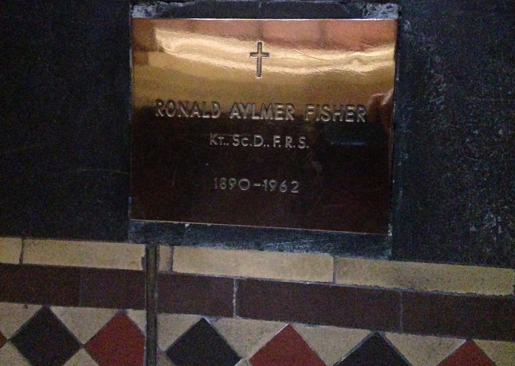 Memorial plaque over remains of Ronald Aylmer Fisher, lectern-side aisle of St Peter's Cathedral, Adelaide